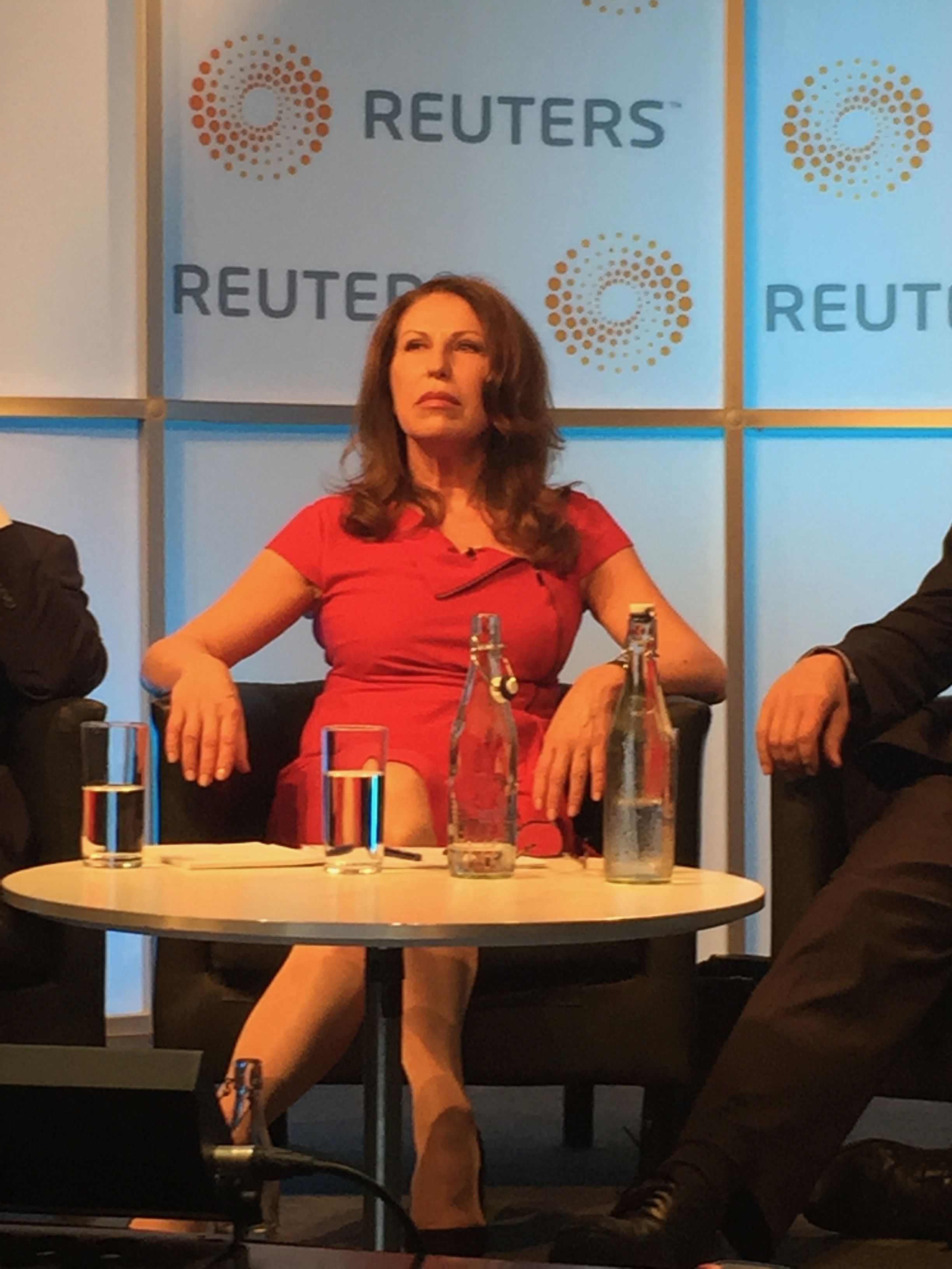 Amanda Platell at London Press Club event 26th July 2017